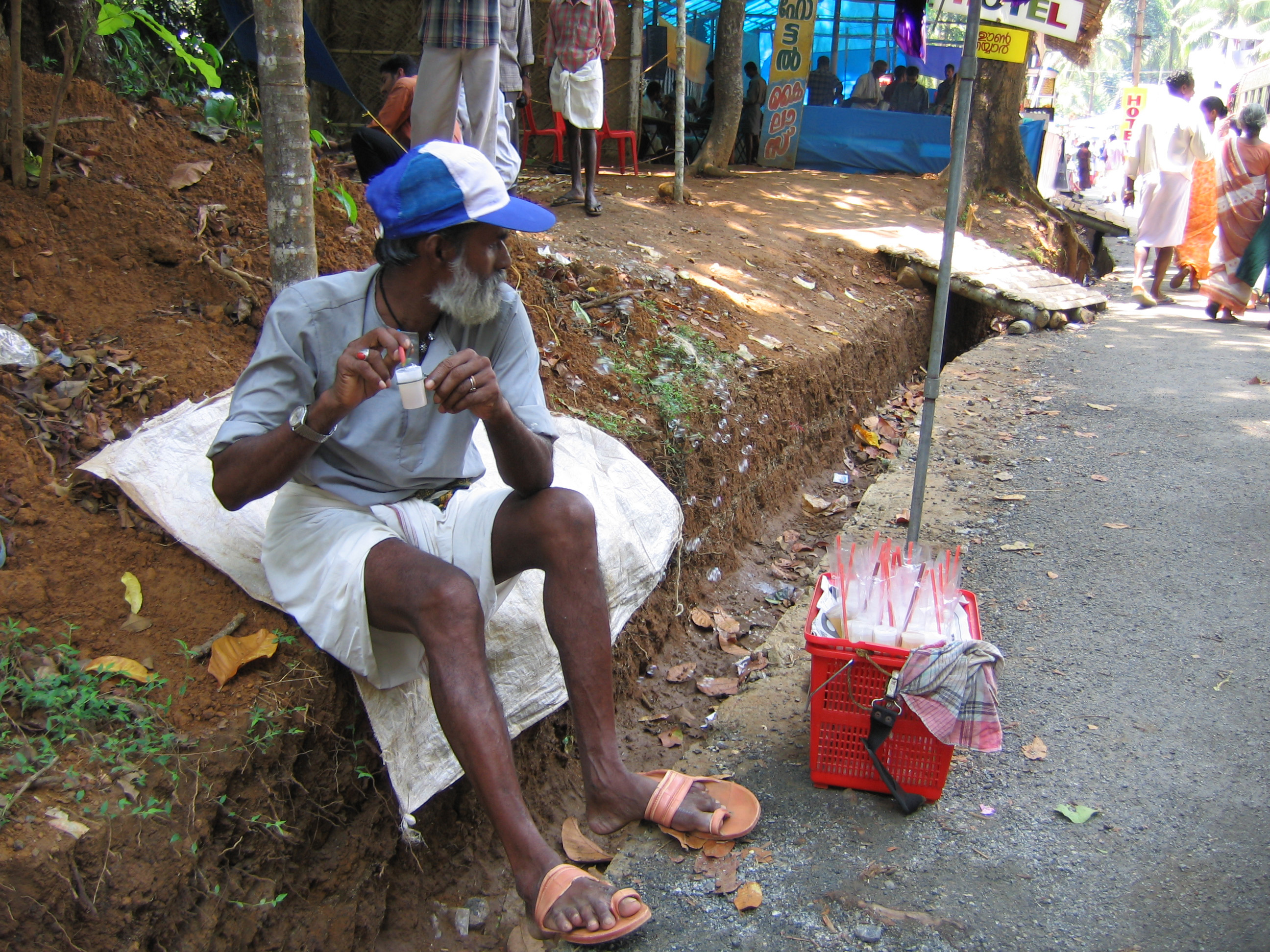 During the festival season May-June every year devotees throng to Akkare-Kottiyoor temple, which is closed for the other eleven months. Here seen a bubble maker seller selling his merchandise.